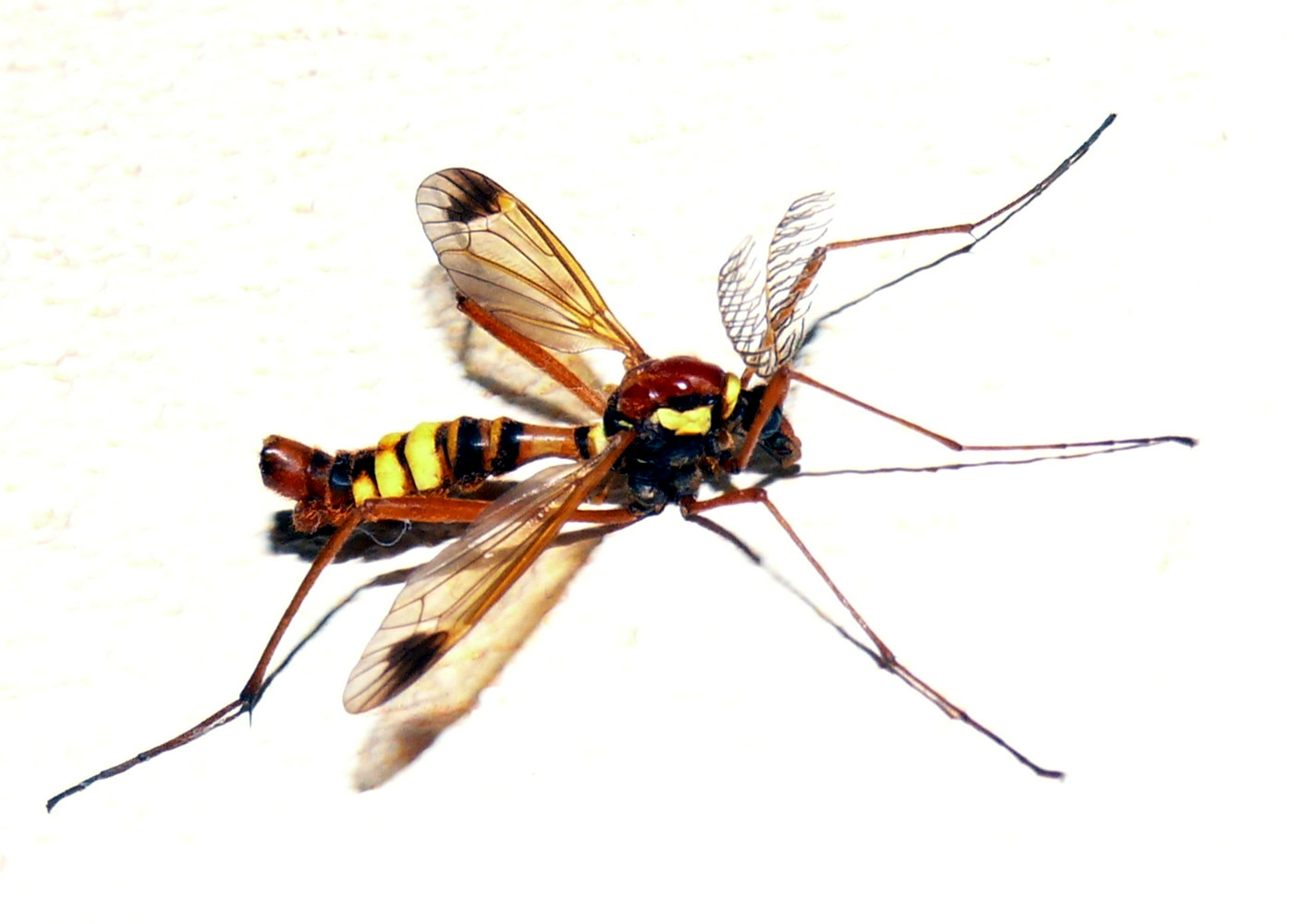 Ctenophora ornata or C. festiva, male. Added: is C. ornata. C. festiva has other legs and the narrowest abdominal segment's pattern is different in C. festiva. See Oosterbroek et al. (2006), Entomologische Berichten 66 (5): 138-149.